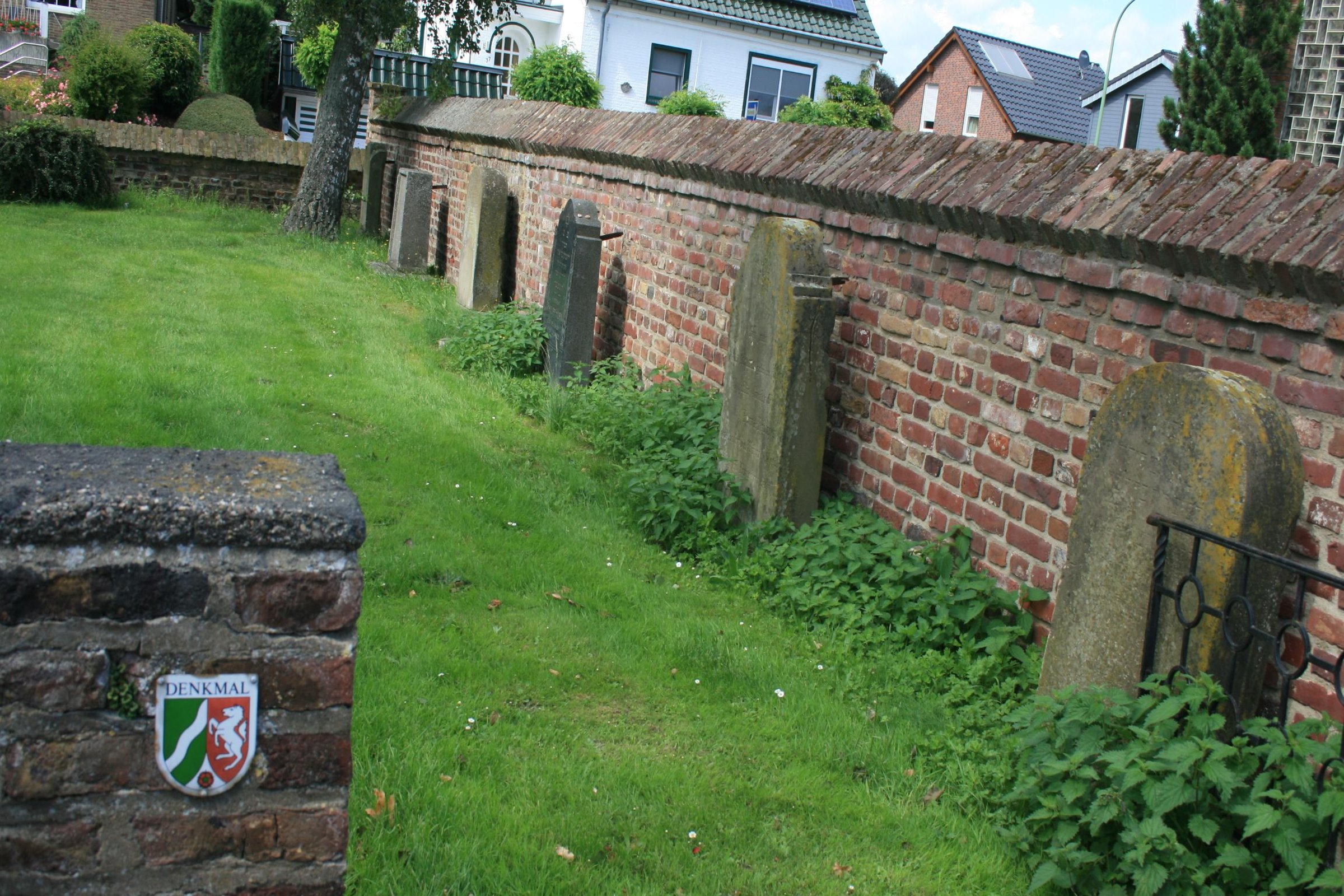 Cultural heritage monument No. 13 in Titz